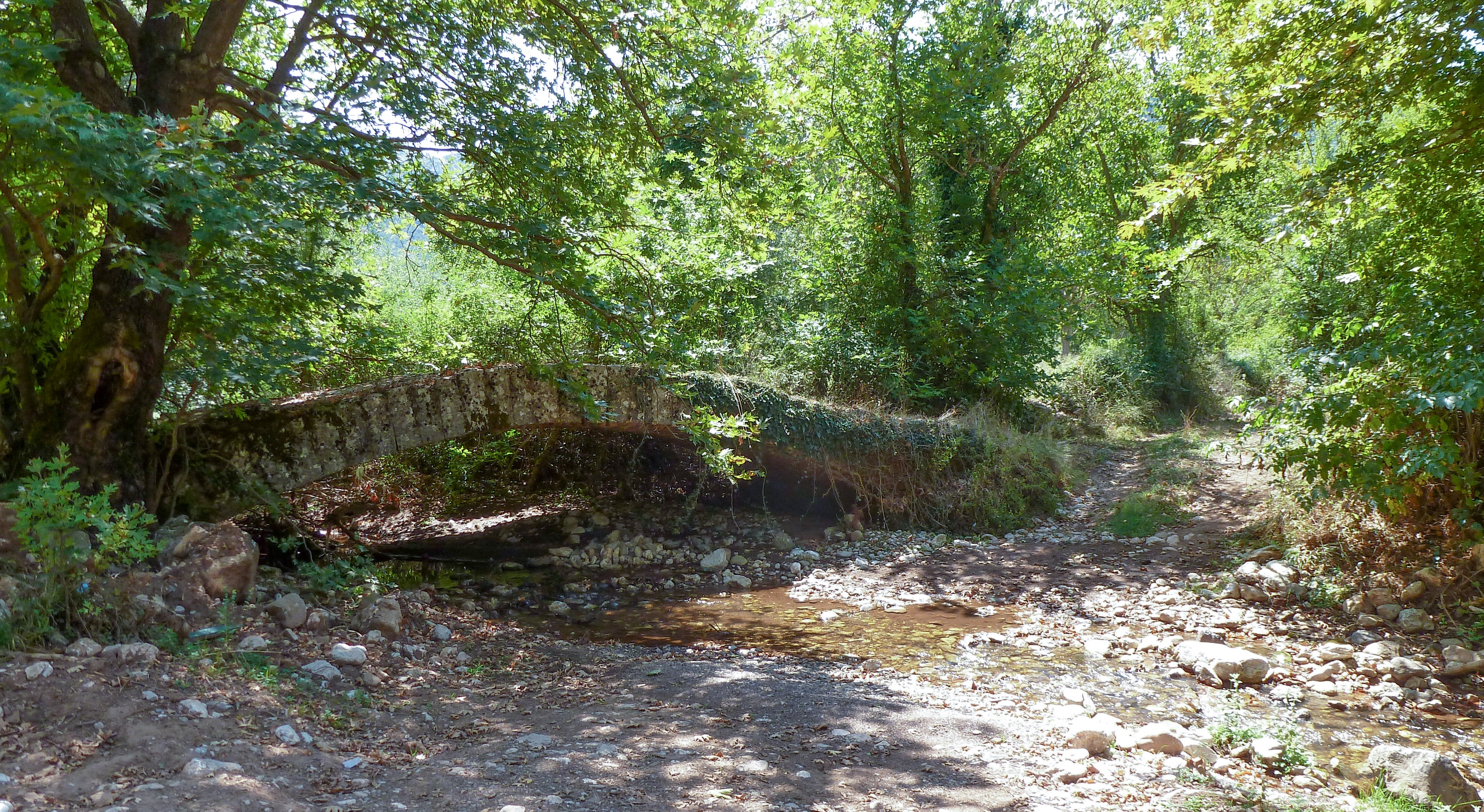 Tourkogefiro, a stone bridge of Sireos (Seiraios) River, Achaia, Greece.